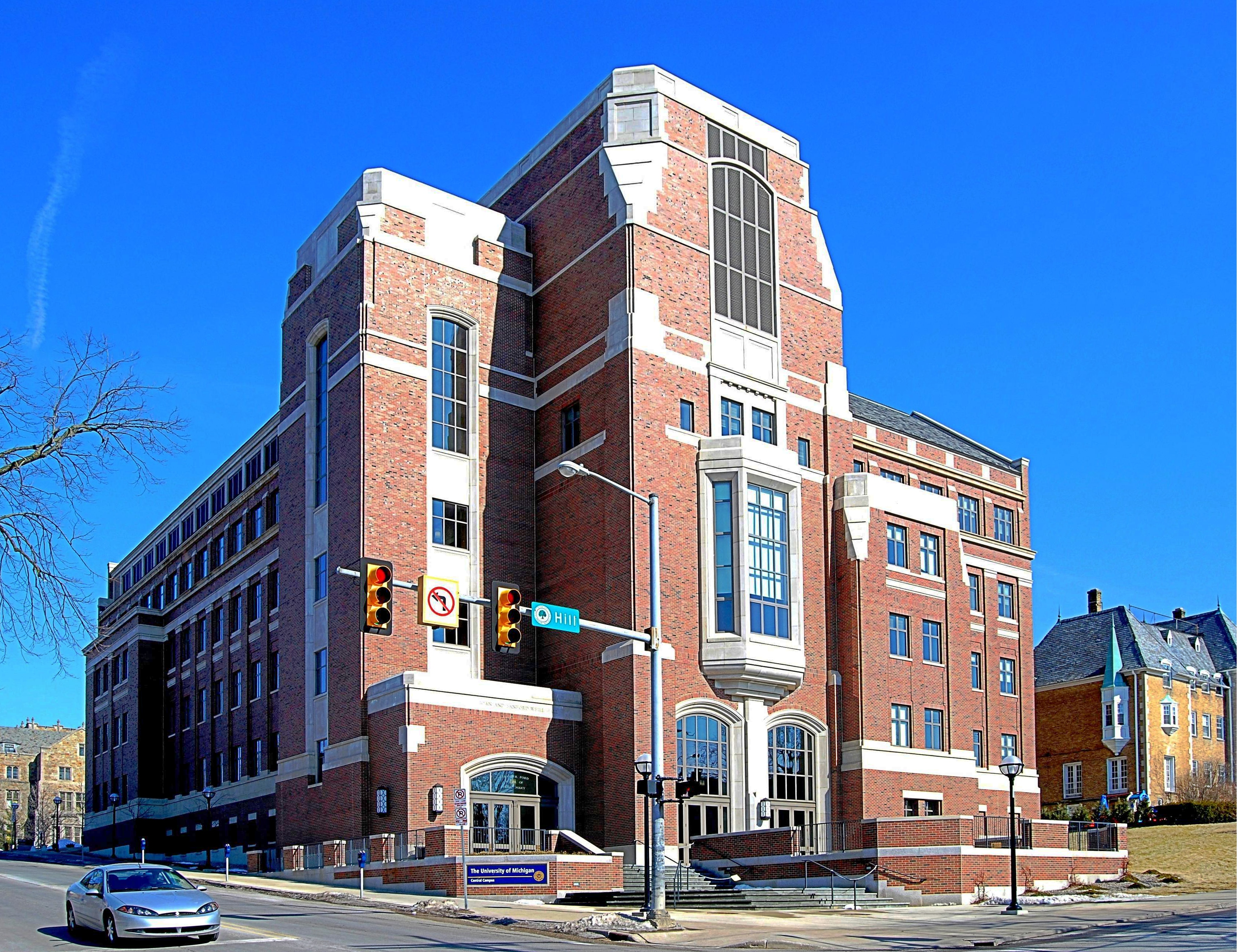 Weill Hall, Gerald R. Ford School of Public Policy, University of Michigan